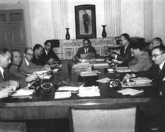 The Oil Commission Head of the Commission Allahyar Saleh (center) On Saleh's right: Abdollah Moazami, Hassibi, Dr. Shayegan, Chief Justice Sorouri, Hossein Makki. On Saleh's left: Dr. Matin-Daftari, Dr. Reza-zadeh Shafagh, Najdm, Senator Naghavi.